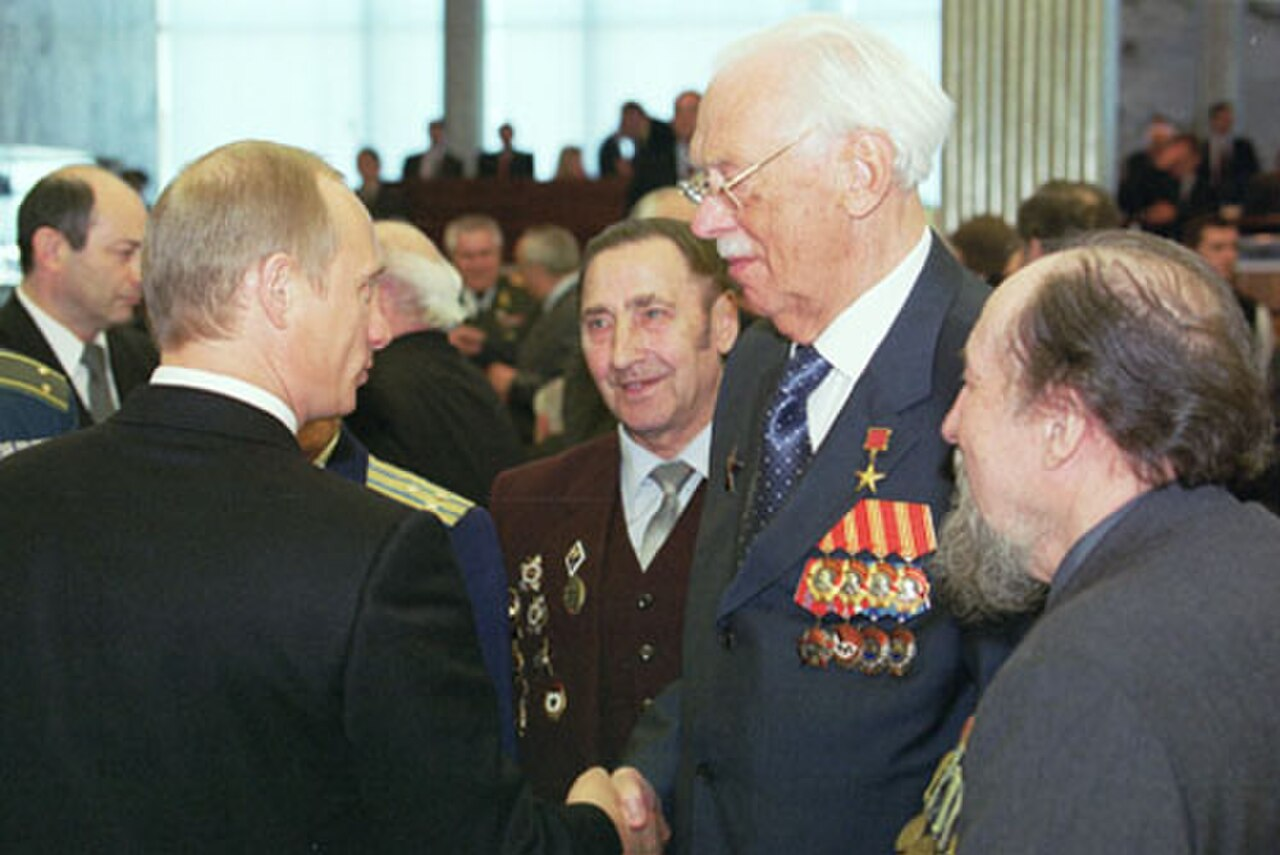 The Kremlin, Moscow. President of Russia Vladimir Putin with writer Sergey Mikhalkov and veterans. Meeting with Veterans Marking the 57th Anniversary of Victory in the Great Patriotic War